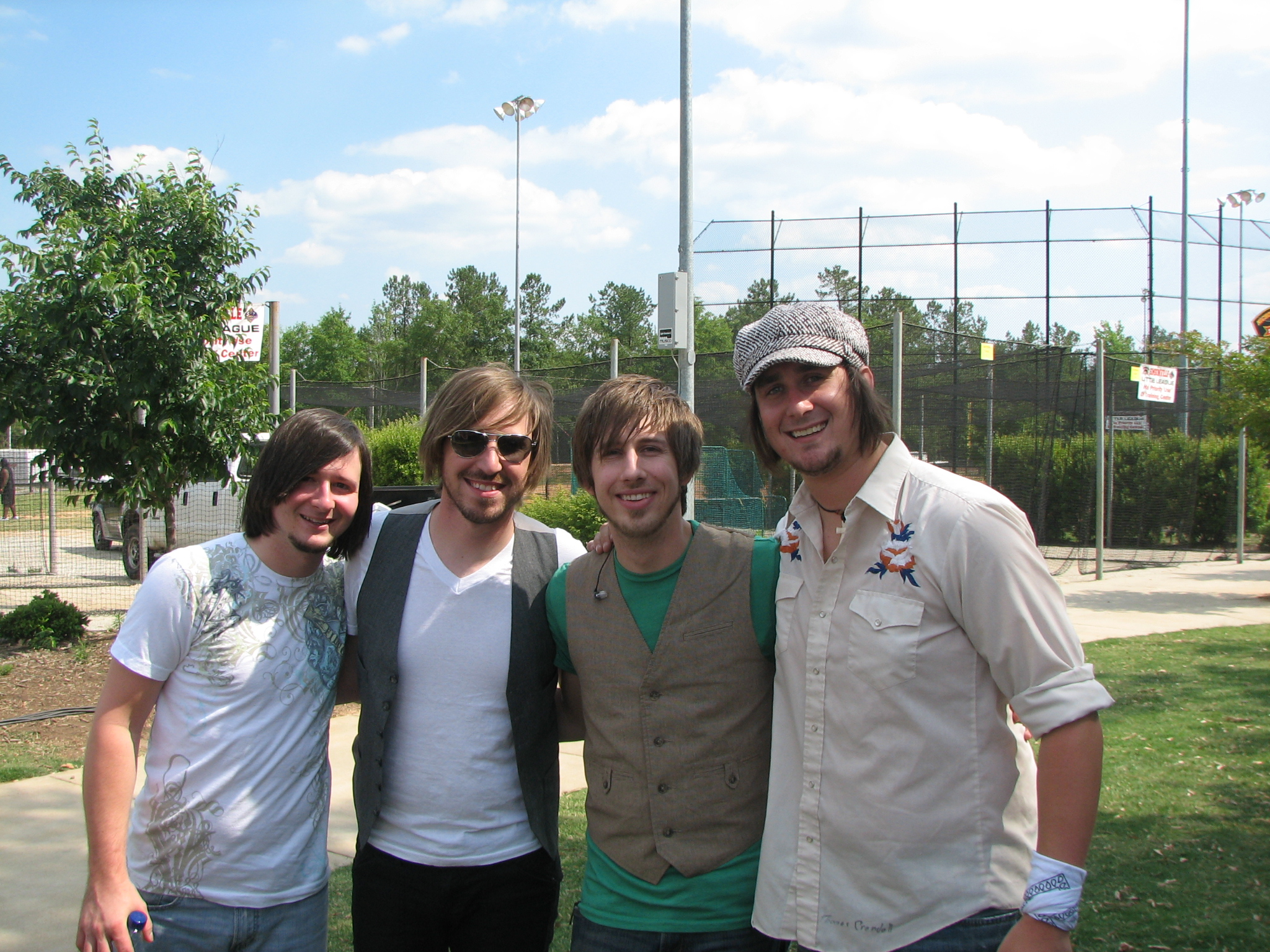 Chasen after their Simpsonville, South Carolina concert on May 25, 2008. Left to right: Aaron Lord (drummer), Chasen Callahan (lead vocals), Clint Hudson (bassist), and Silver (guitar).